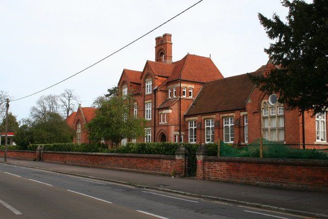 Wallingford Grammar School The front of the old grammar school which was boys only. It finally became part of the comprehensive system with Blackstone Secondary further along St Georges Road.